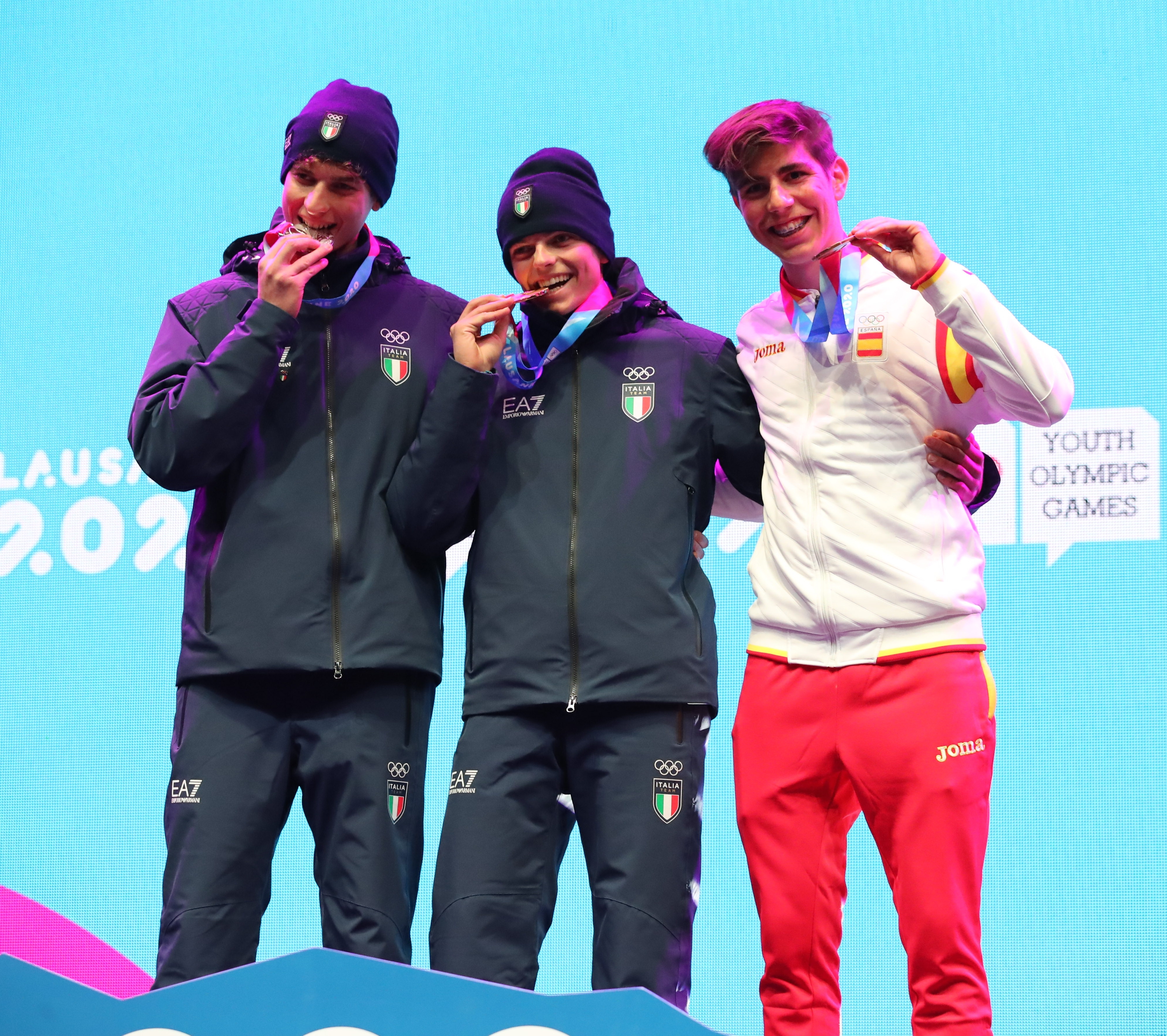 Medal ceremony of Ski Mountaineering – Men's Sprint at the 2020 Winter Youth Olympics in Lausanne on 13 January 2020.